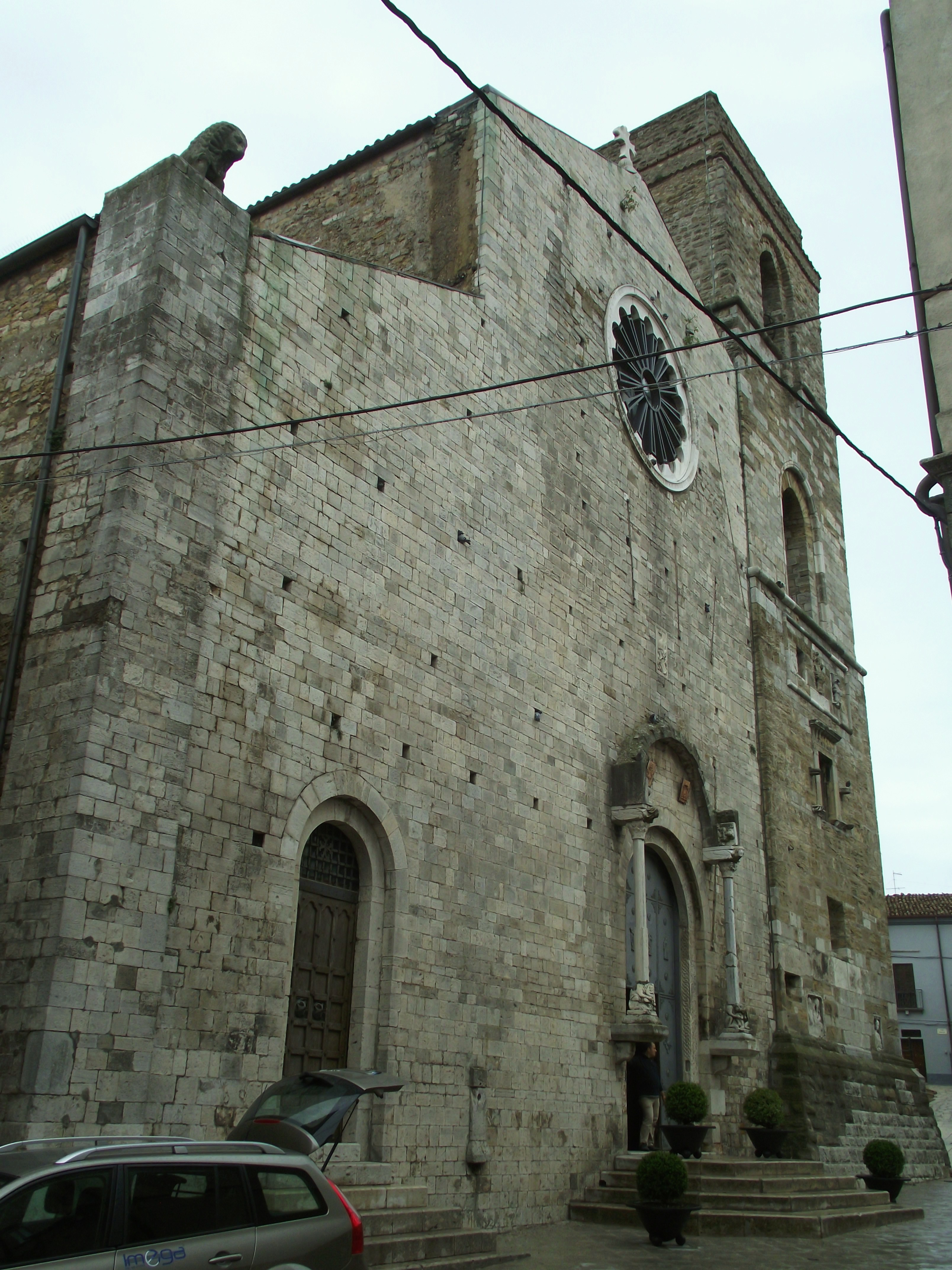 la facciata della cattedrale